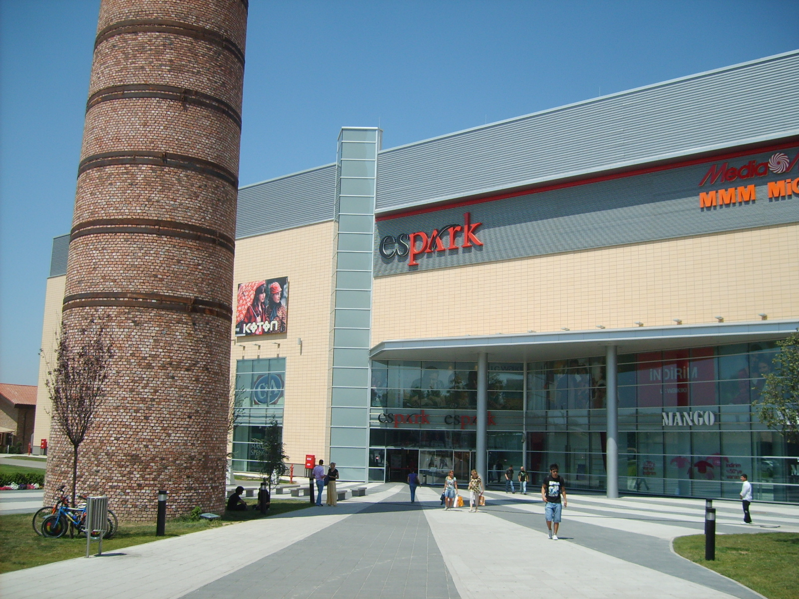 Espark